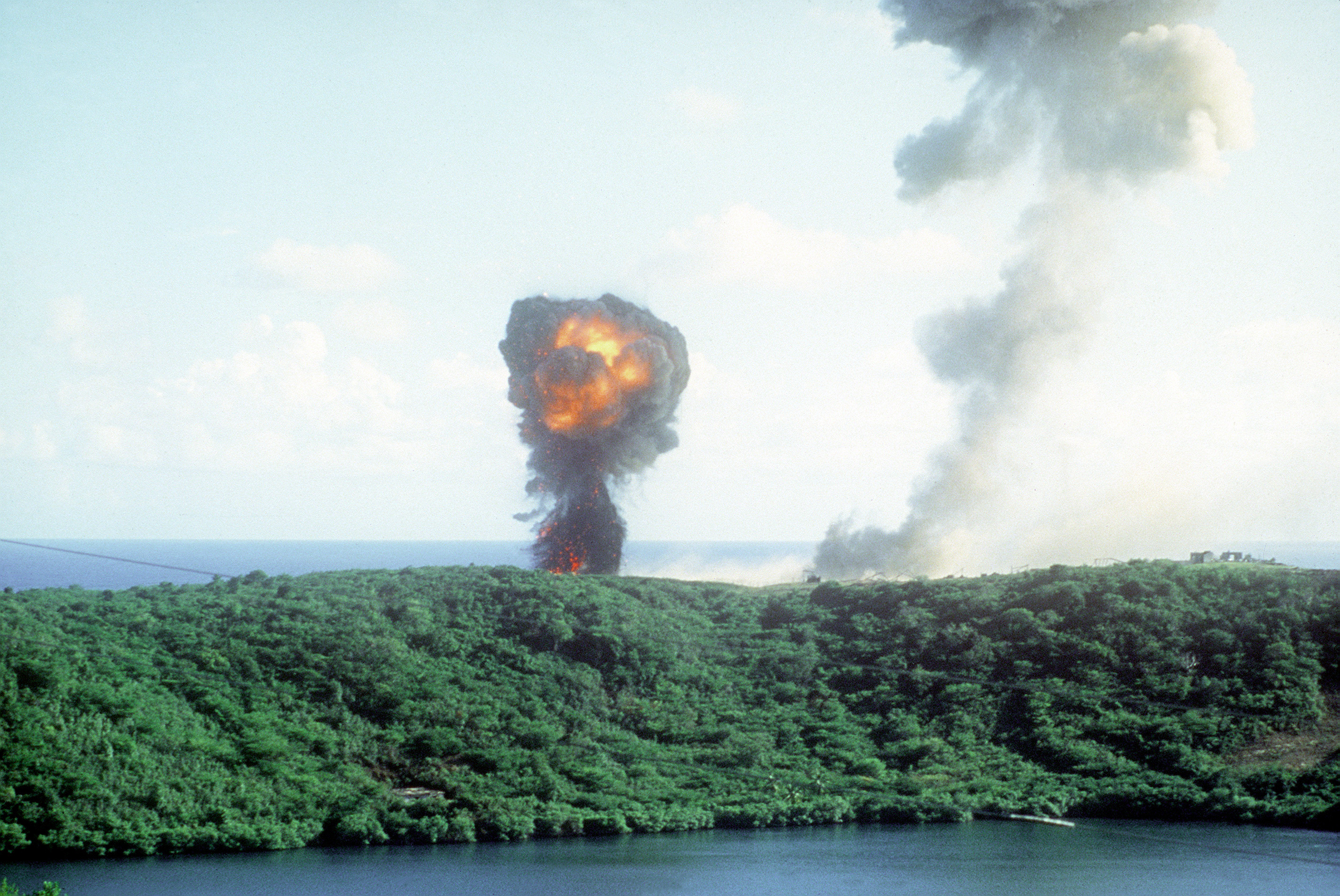 An explosion during "Operation Urgent Fury", Grenada, 25 October 1983.